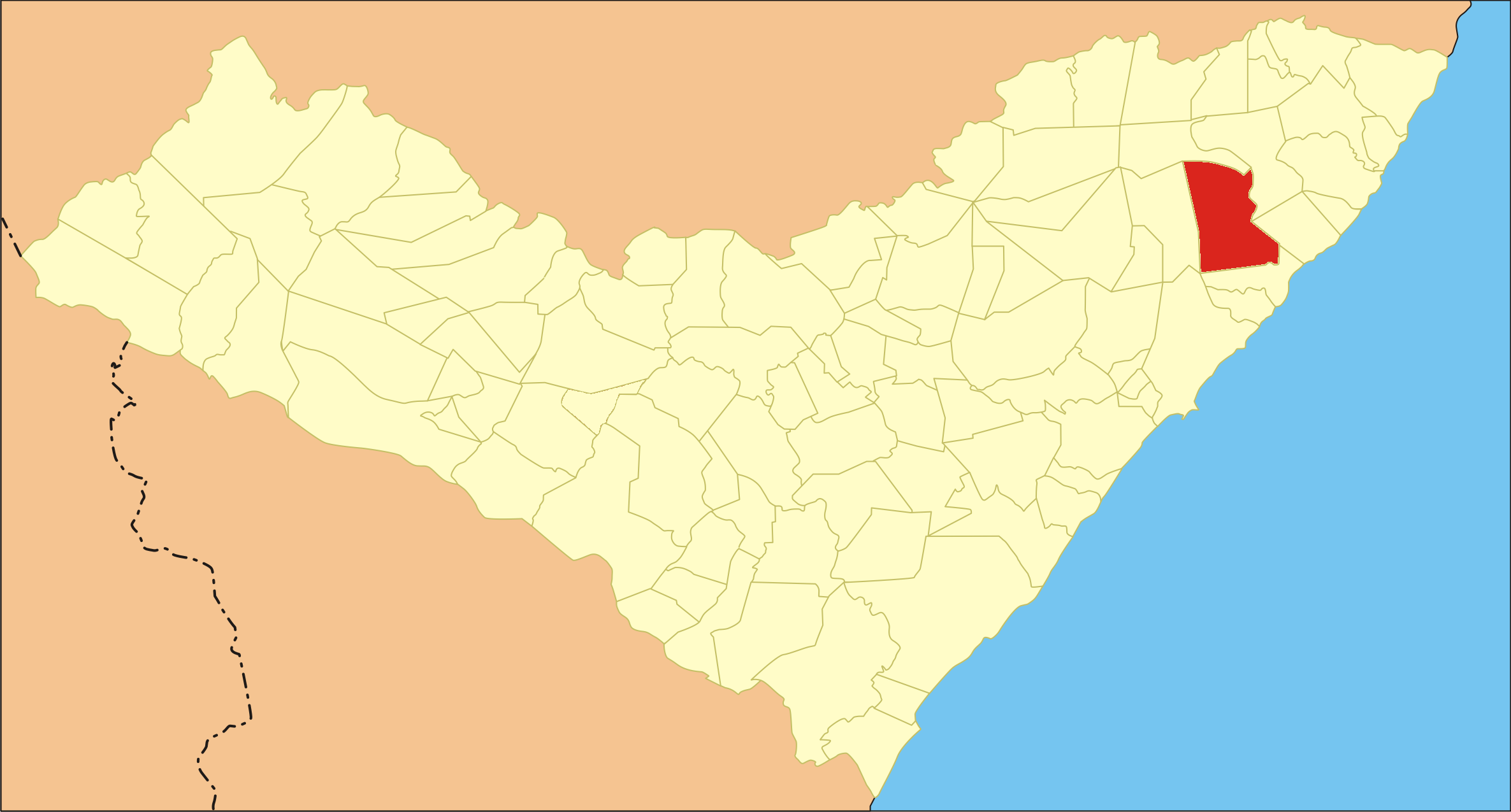 Localization of São Luís do Quitunde in Alagoas state, Brazil.